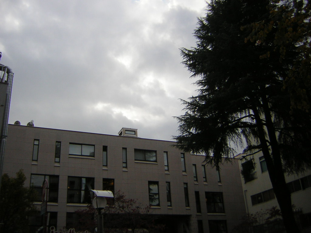 Yodobashi Church